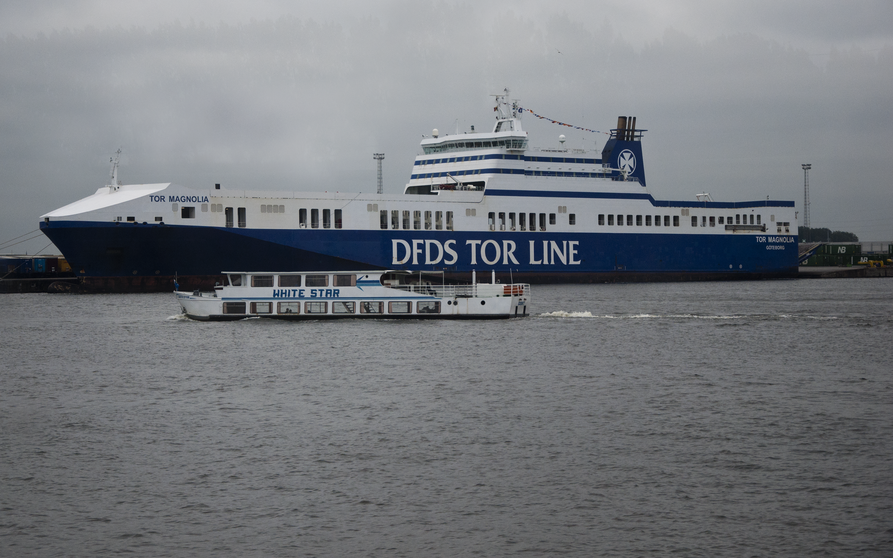 DFDS - Tor Magnolia in the Port of Ghent, Belgium